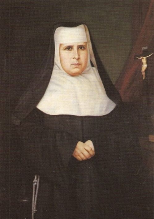 Blessed Sister Maria Clara of the Child Jesus (1843-1899)